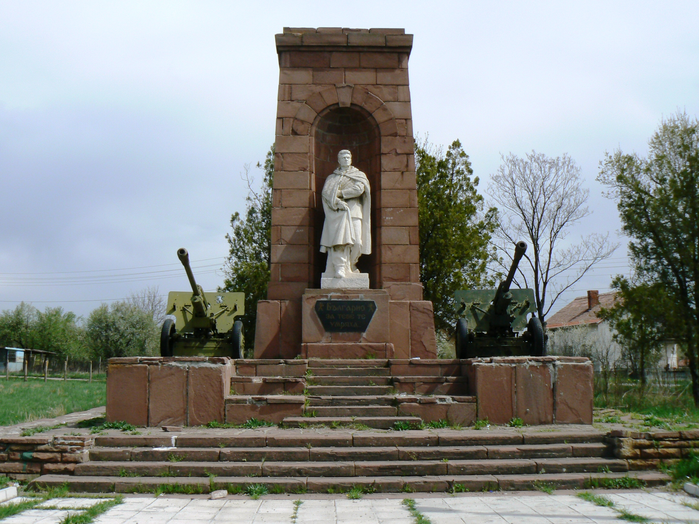 The war memorial in village Yardzhilovtsi, Bulgaria